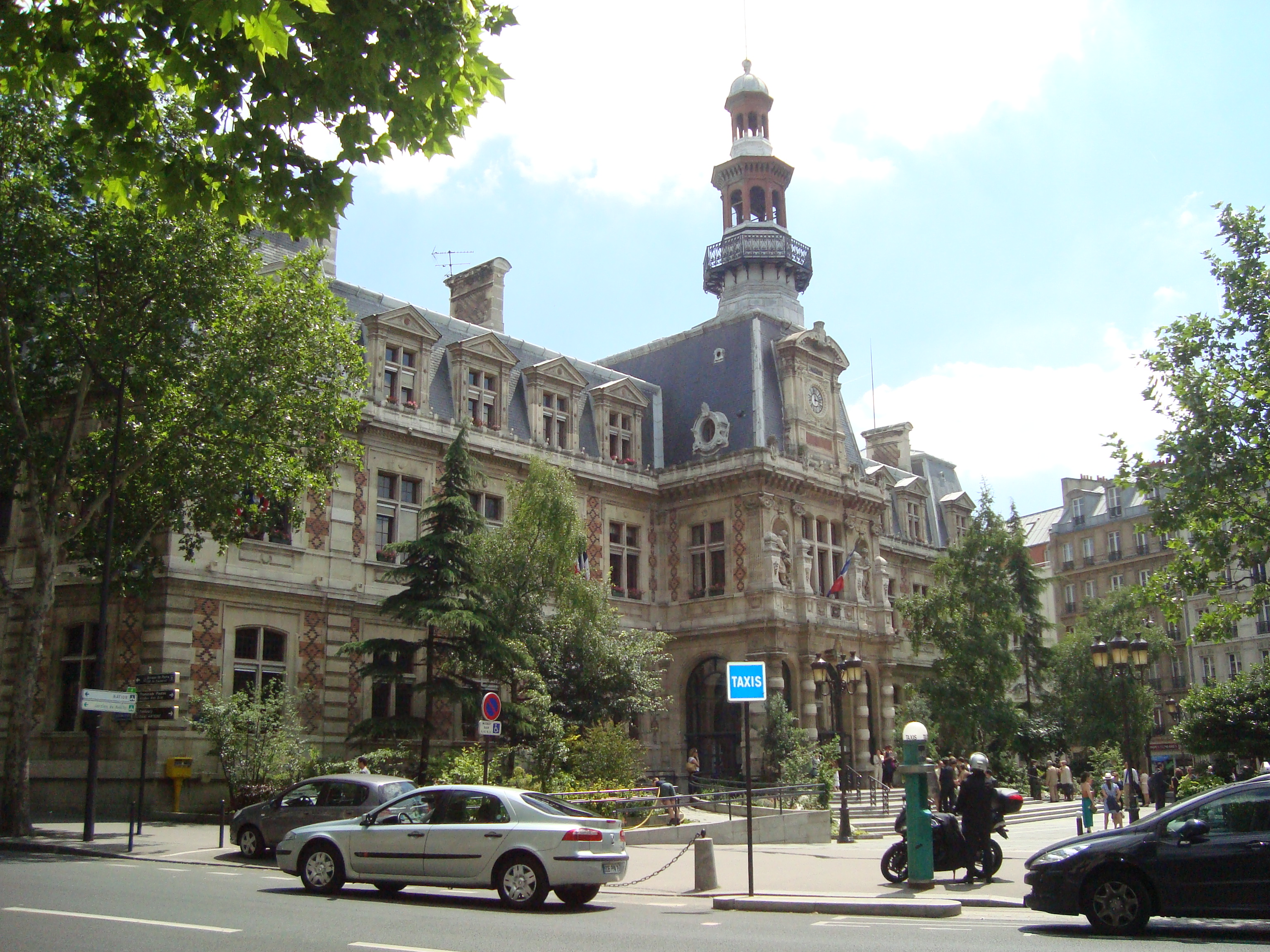 View of the Cityhall of the XIIe arrondissement of Paris at rue Descos